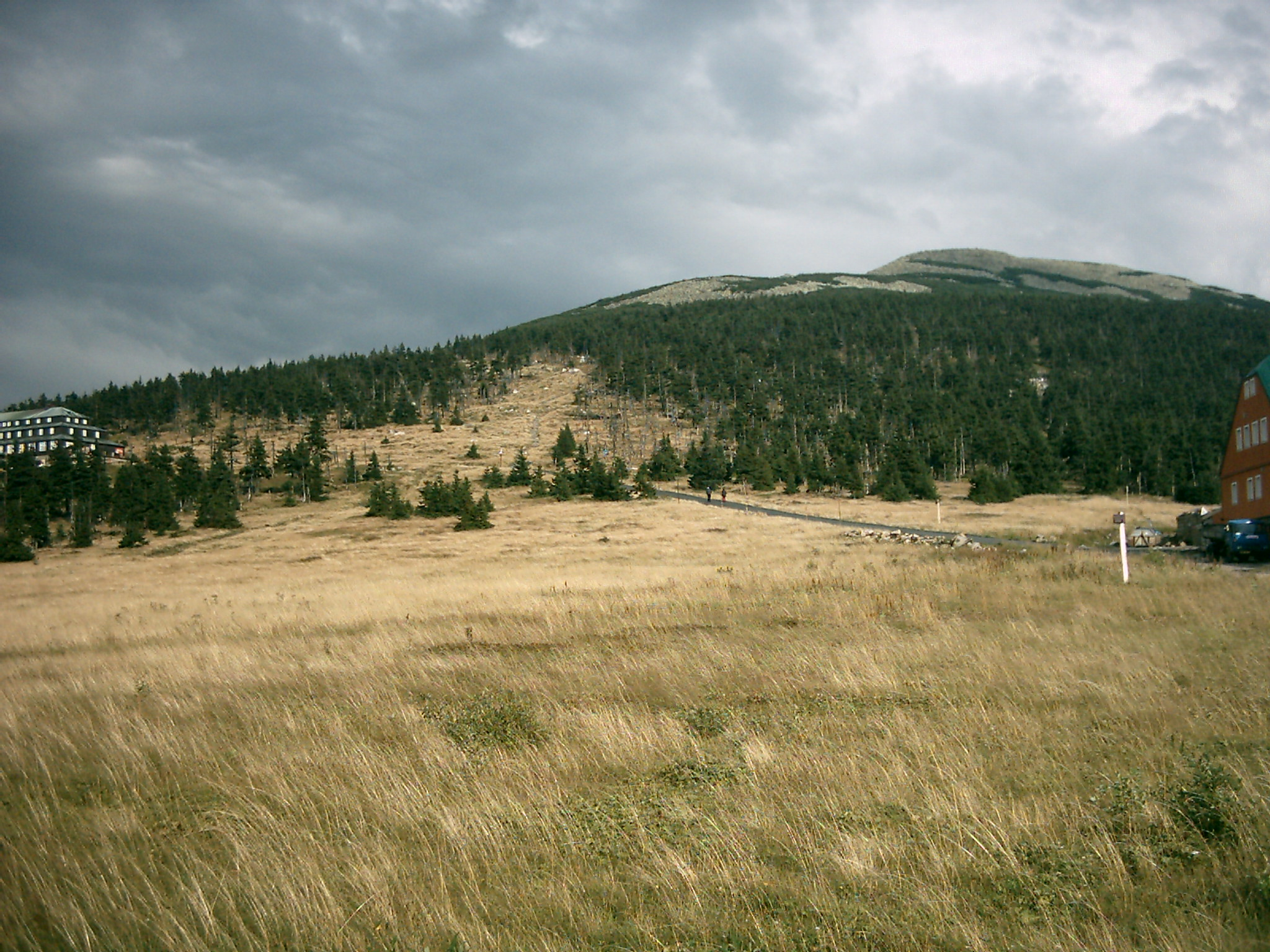 Przełęcz Karkonoska, Mały Szyszak and Smogornia in the background. Left in the image Spindlerova bouda.